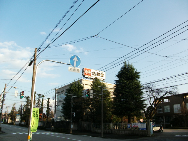 Koukandou CO.LTD Headoffice(9-1 2Choume Umezawa-Town Toyama-City Toyama-Prefecture JAPAN)